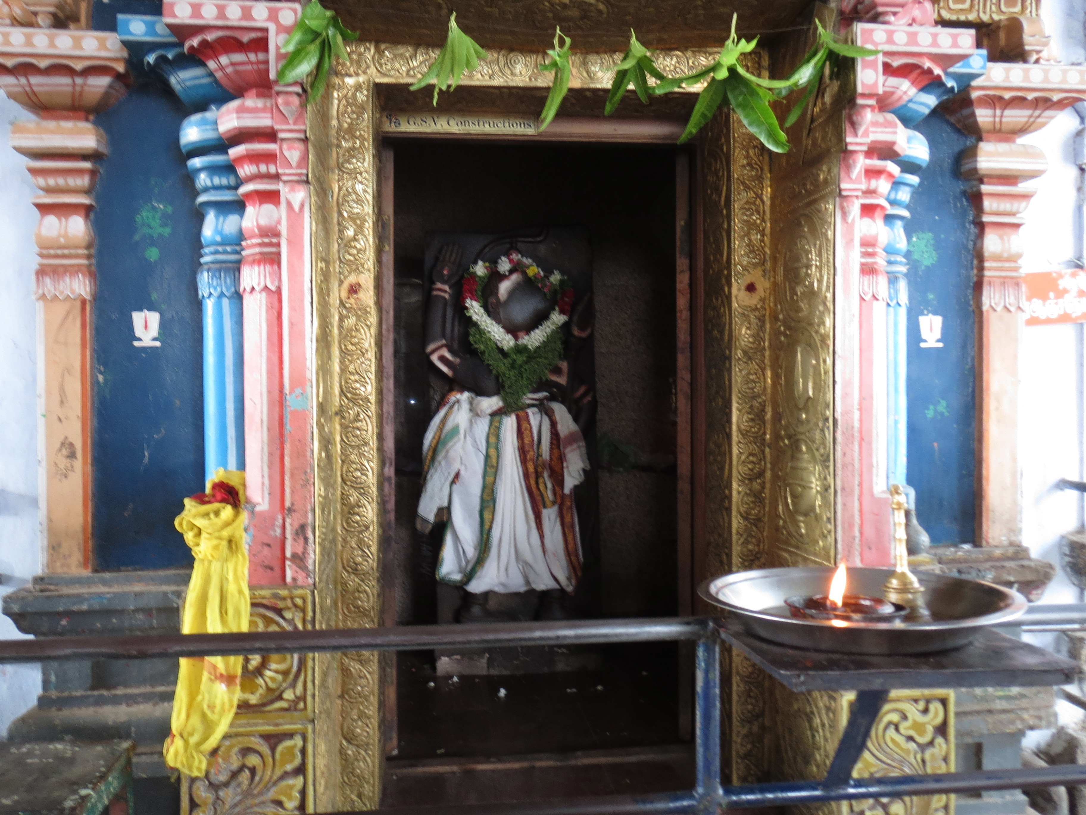 Veera Anjaneyar in Ranganathaswami temple, Karamadai, Coimbatore, Tamil nadu.